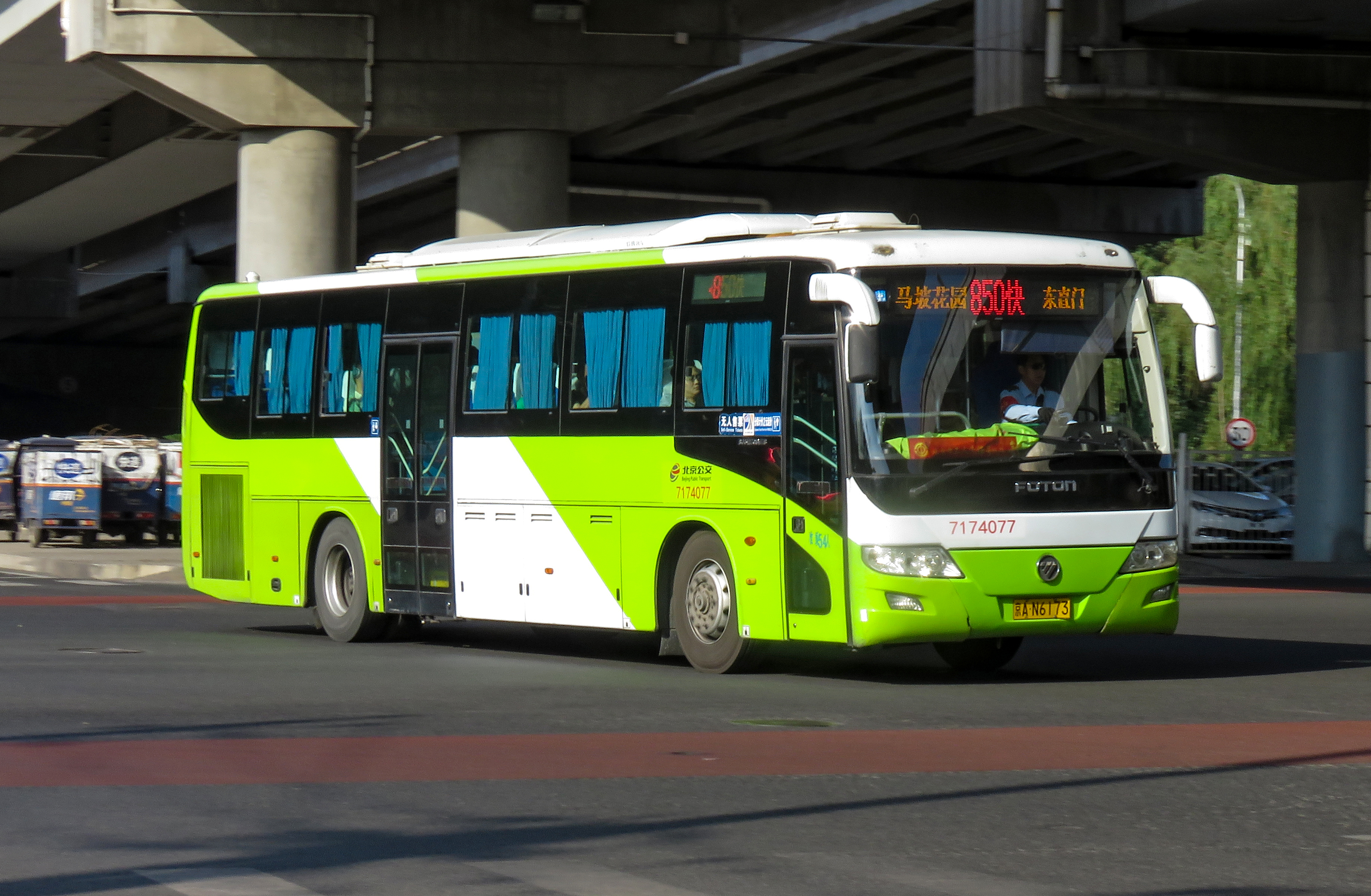 850X can be regarded as spotters' "Cityflyer".